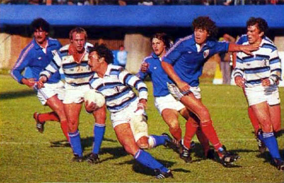 San Isidro Club vs France national team at F.C. Oeste, Caballito. Marcelo Loffreda with the ball; Tomás Petersen (left) and Rafael Madero (right).